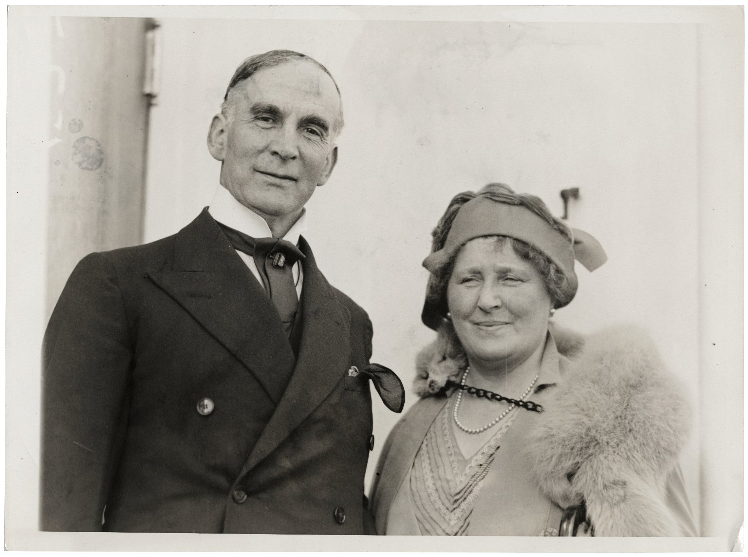 Frank O. Salisbury, prominent English portrait painter, and Alice Salisbury photographed on board the S.S. Olympic in New York City